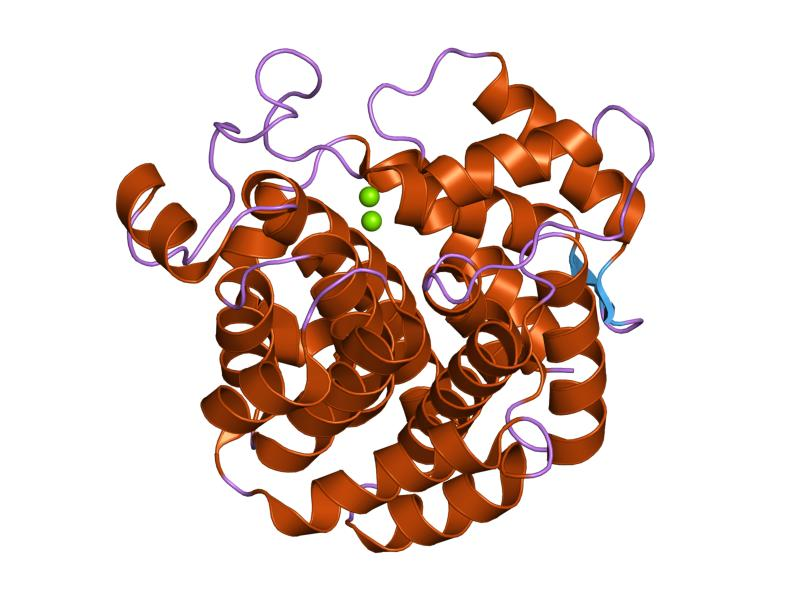 Cartoon representation of the molecular structure of protein registered with 1t5j code.